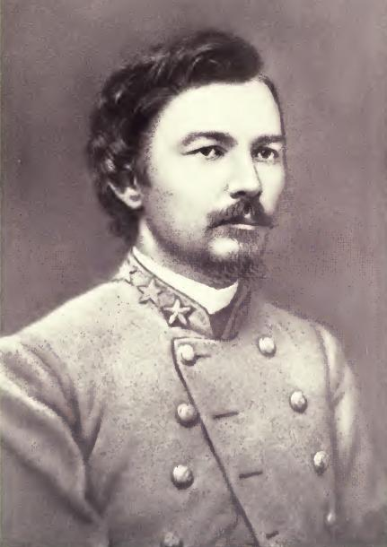 Portrait of Colonel Robert F. Beckham, officer of the Confederate Army